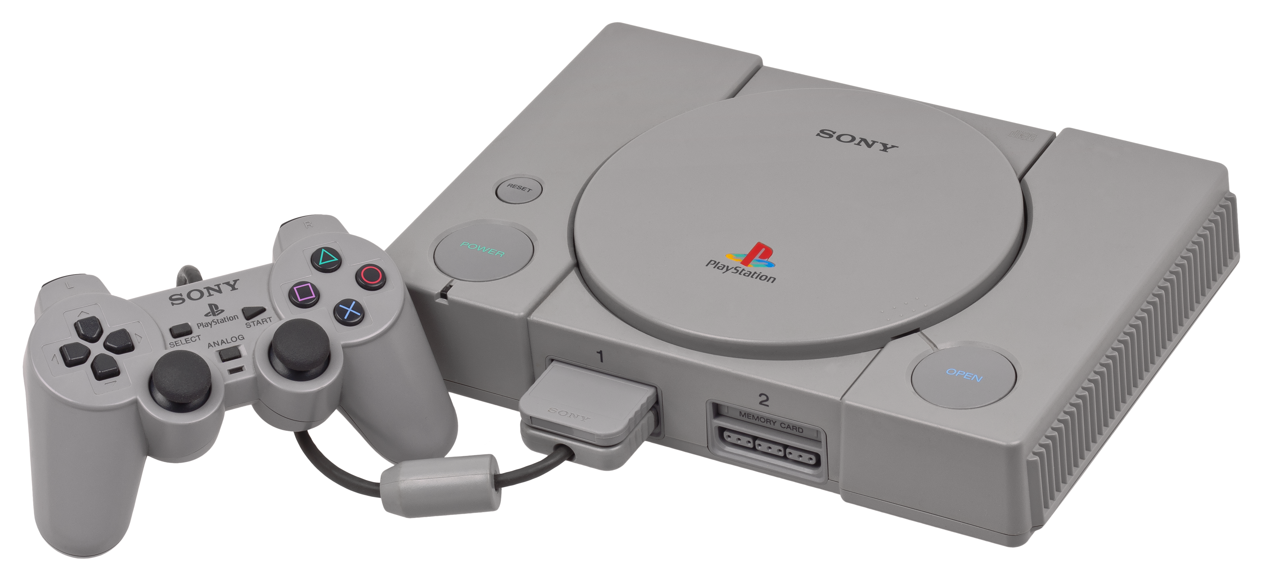 A Sony PlayStation (SCPH-5001), shown with a DualShock controller and Memory Card. This is the PNG version.